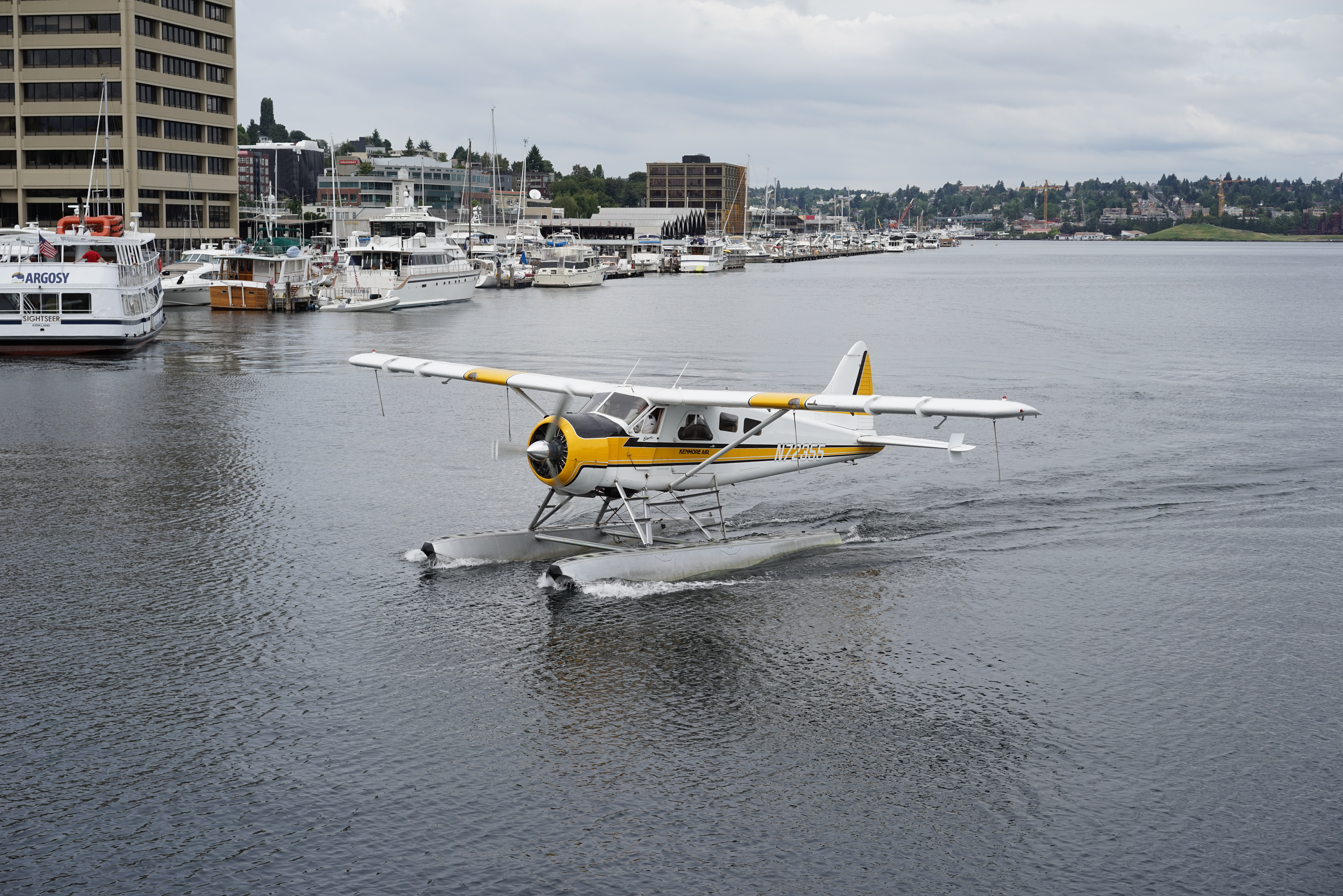 A de Havilland Canada DHC-2 Beaver with tail number N72355 operated by Kenmore. Spotted on Lake Union.